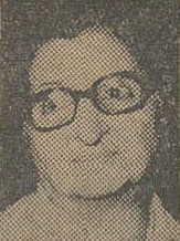 Ettela'at newspaper, No.14741, dated Tir 3, 1354 (24 June 1975), page 29.